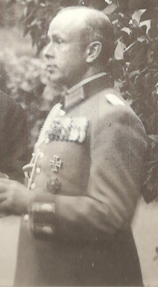 Colonel George von der Decken, then aide-de-camp to German Minister of War Werner von Blomberg, as a guest of Adolf Hitler during the Wagner festival in Bayreuth in 1937.